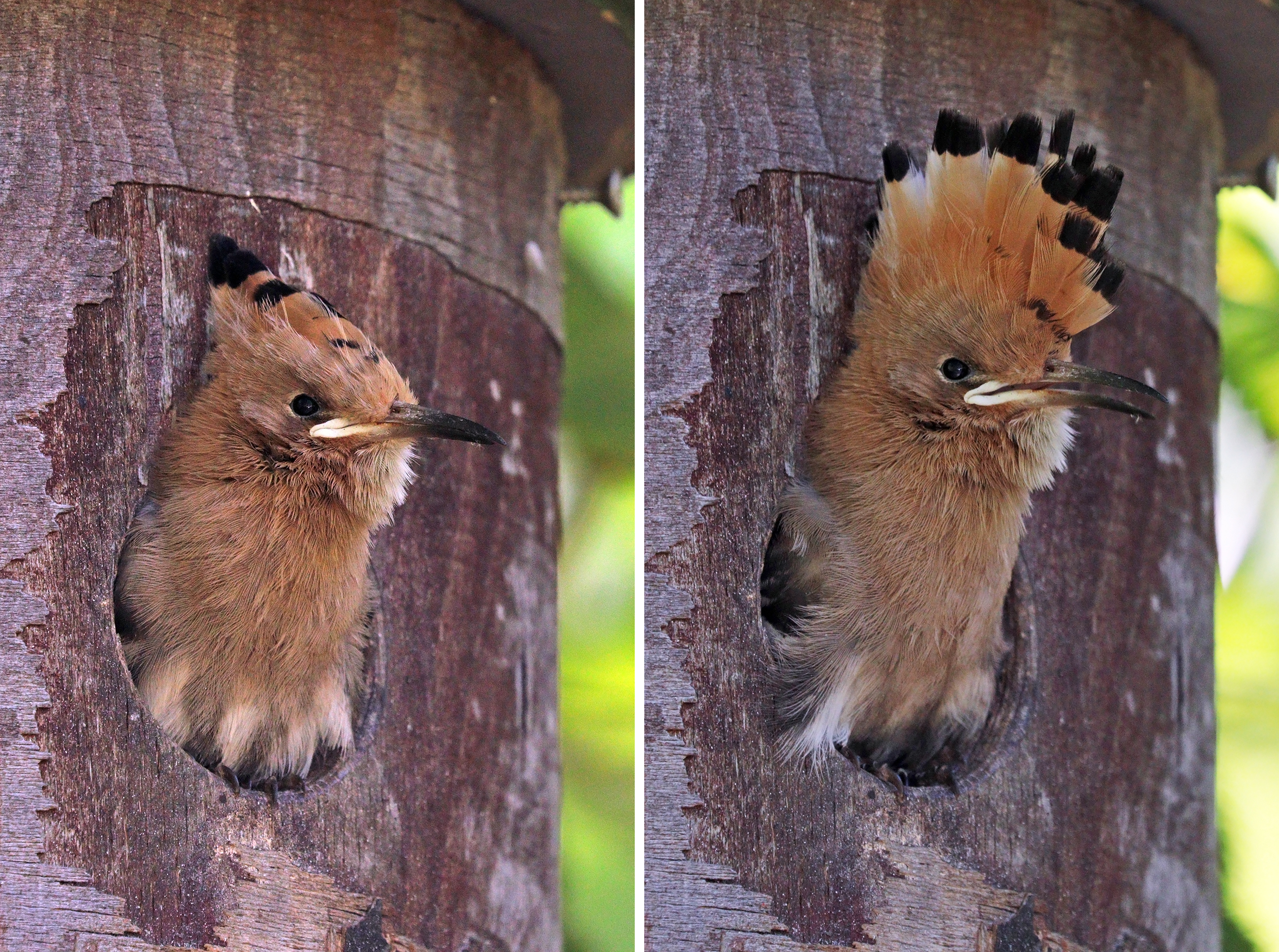 Eurasian hoopoe (Upupa epops) juvenile in nest box, Kondor Tanya, near Kecskemét, Hungary. Composite image.